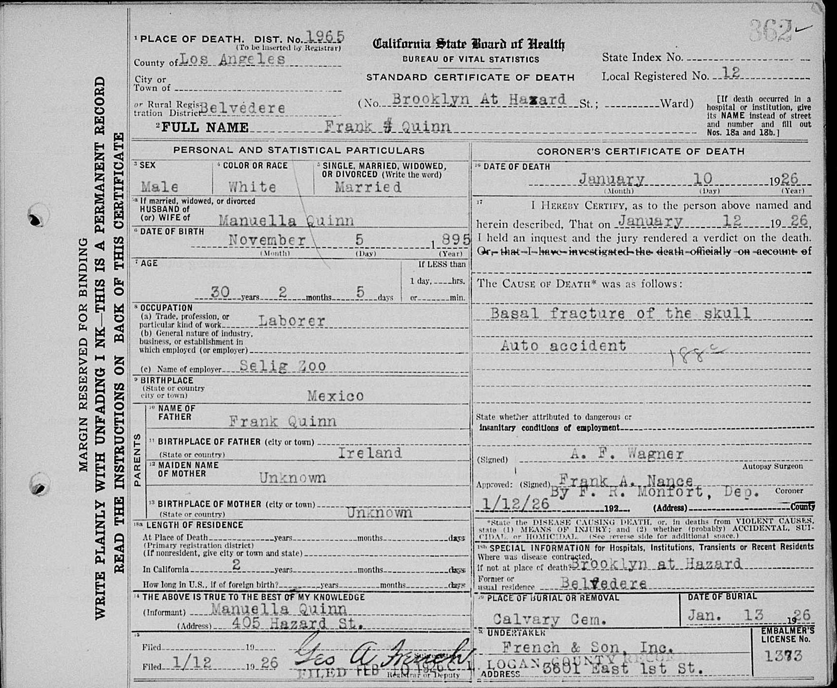 Marriage record